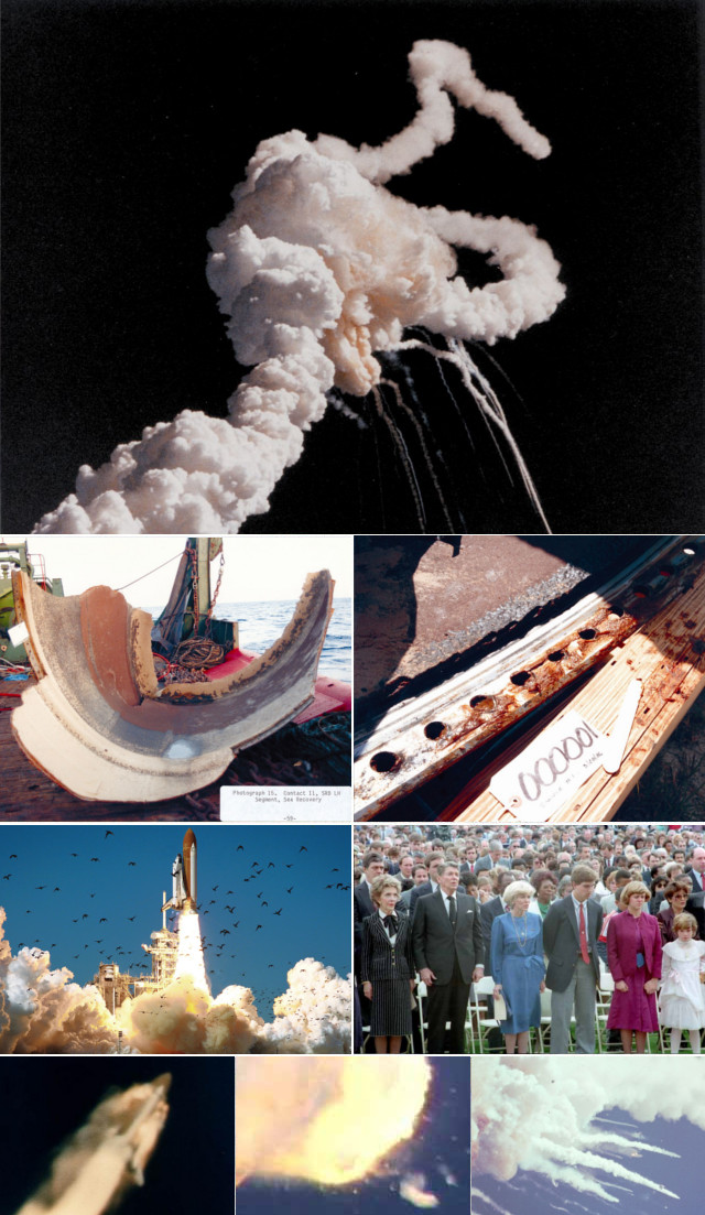 Photo montage of the Space Shuttle Challenger disaster.